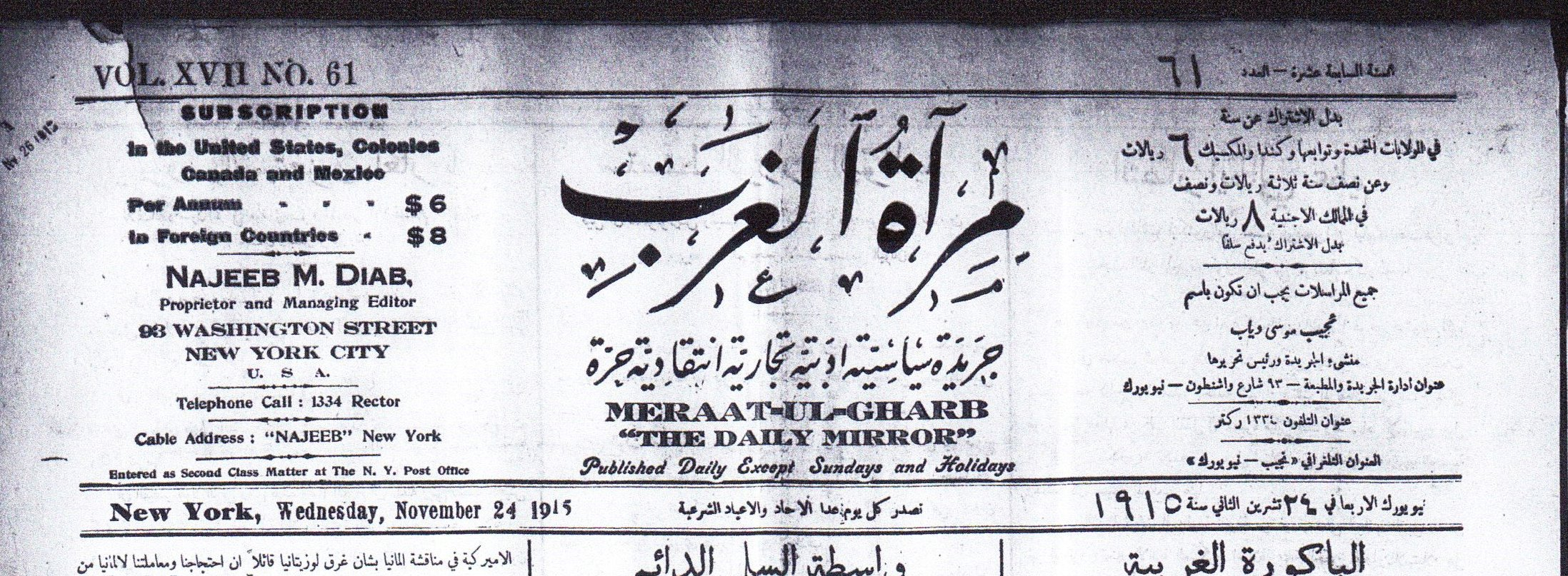 Masthead of Meraat-ul-Gharb, 1922